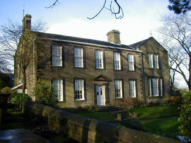 Bronte Parsonage. Former home of the Brontes, just off the High Street in Haworth.